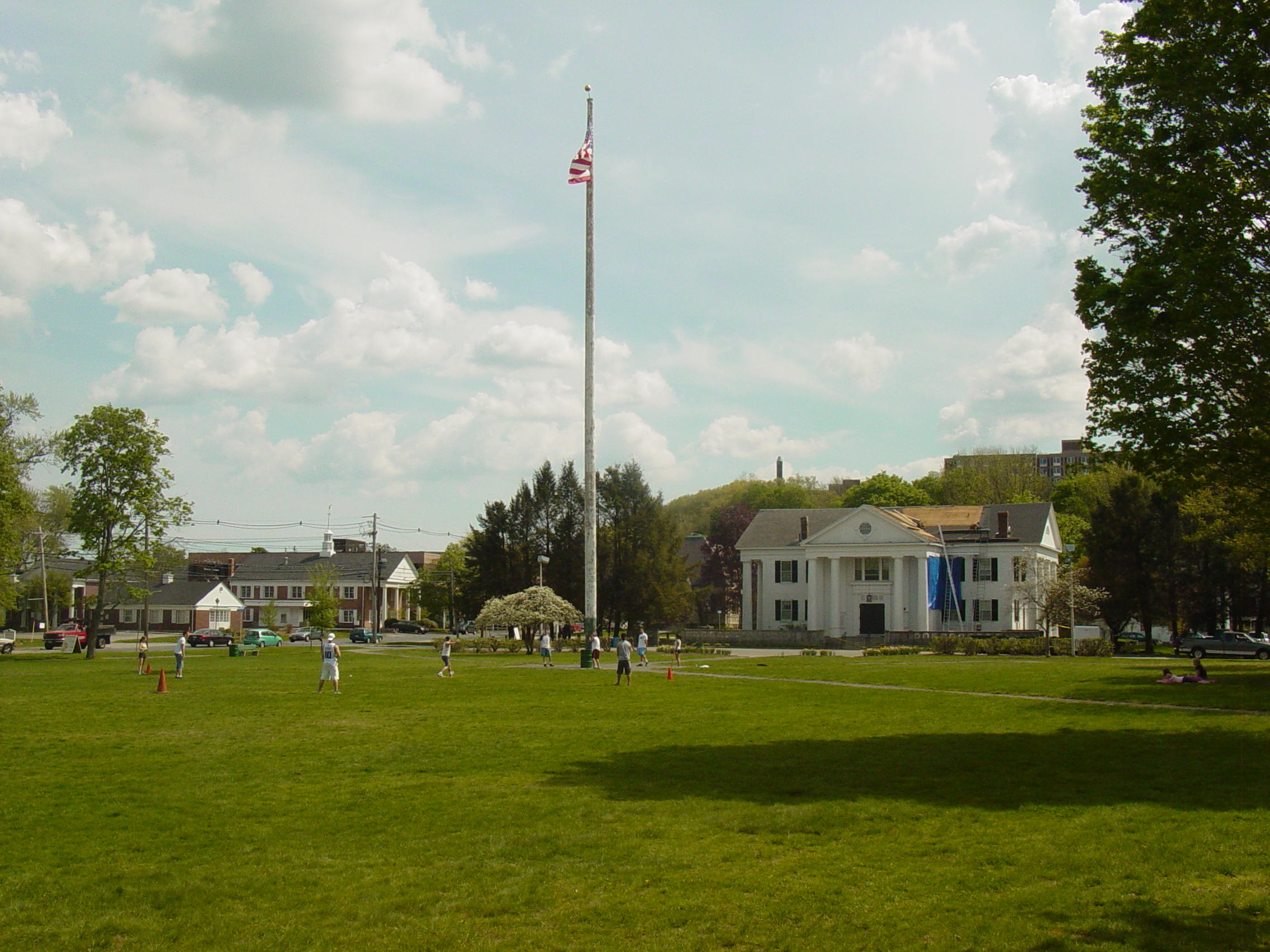 I Created this image on May 24th, 2007 from a picture I took on or about May 10th, 2007